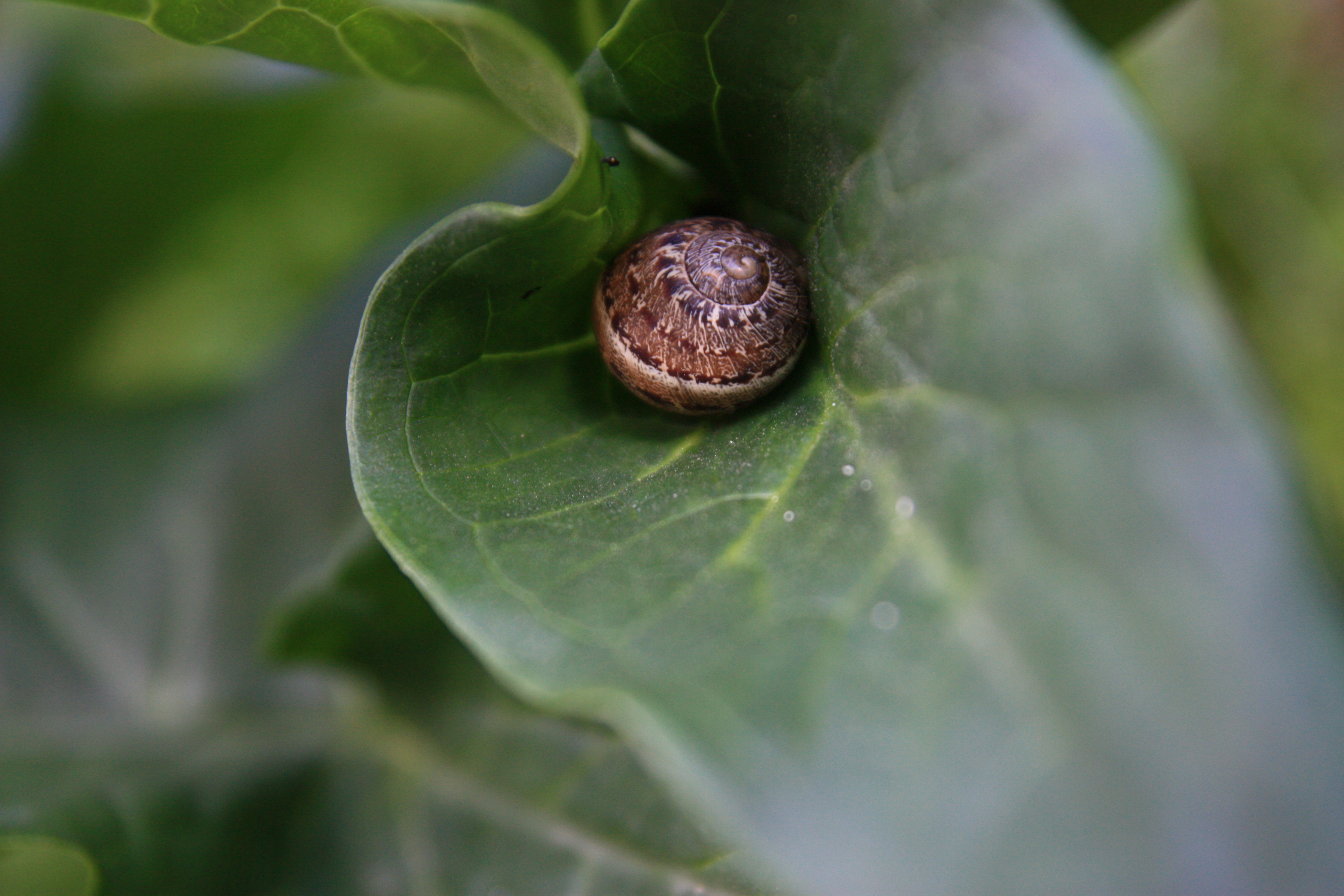 Animals of Israel